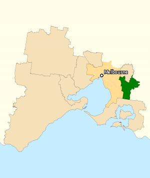 This image incorporates data that is: © Commonwealth of Australia (Australian Electoral Commission) 2009 Division of La Trobe 2010